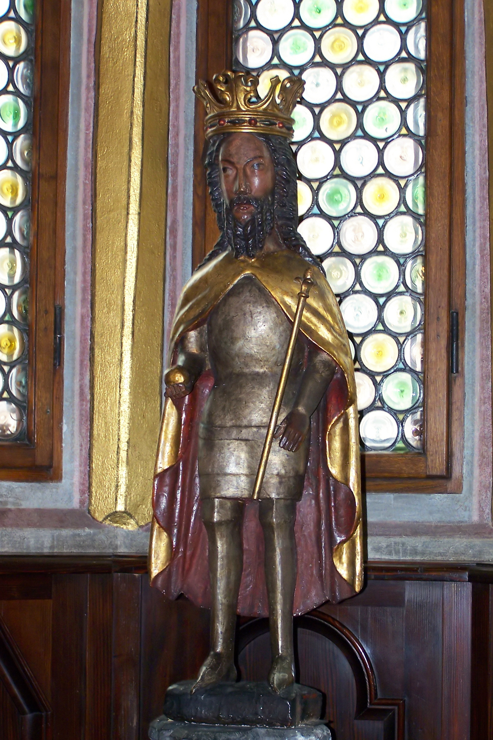 Statue of Casimir III of Poland in Collegium Maius (Kraków, Poland).